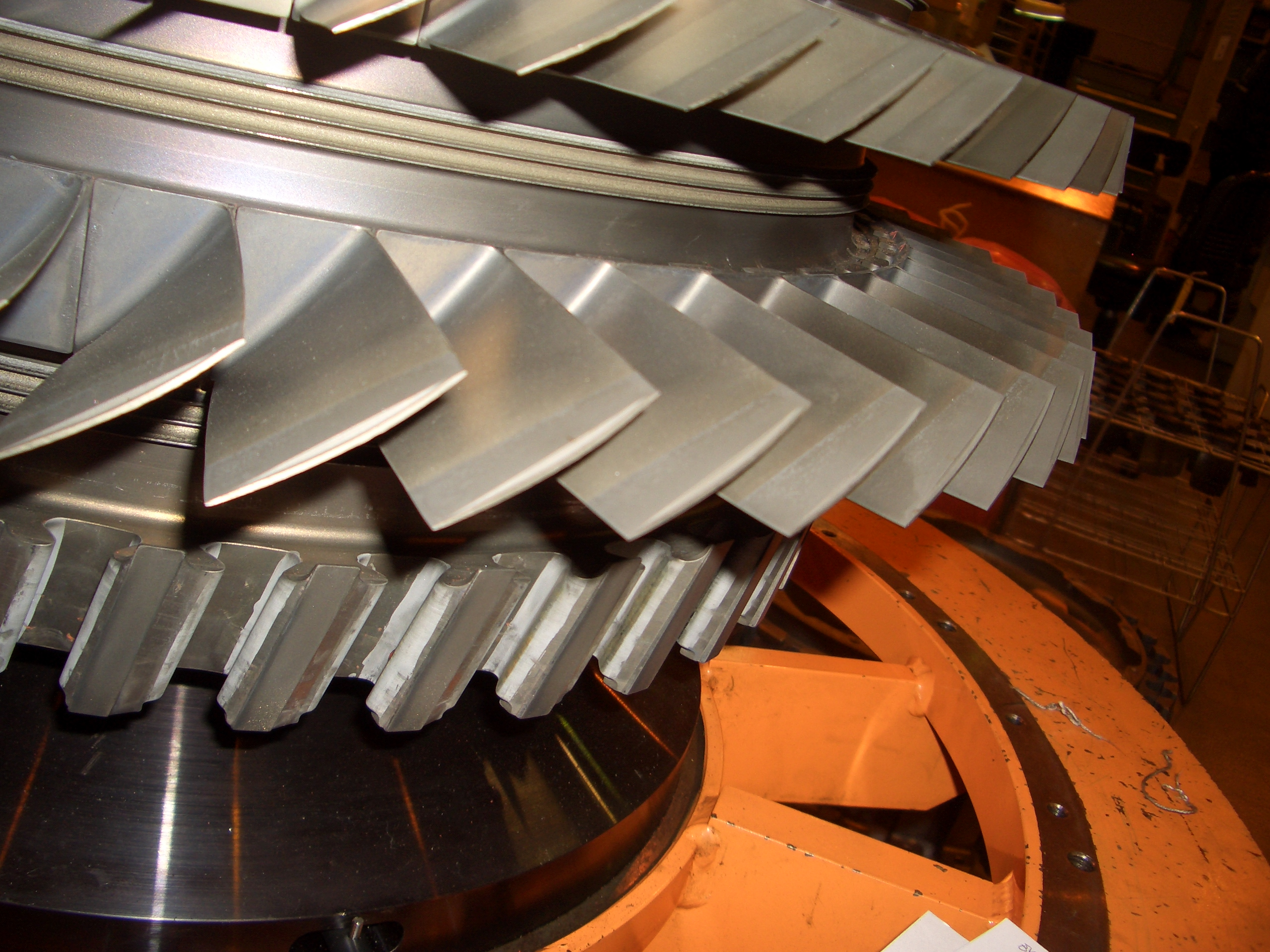 A partially assembled CFM56-3 engine low pressure compressor rotor stage (booster).